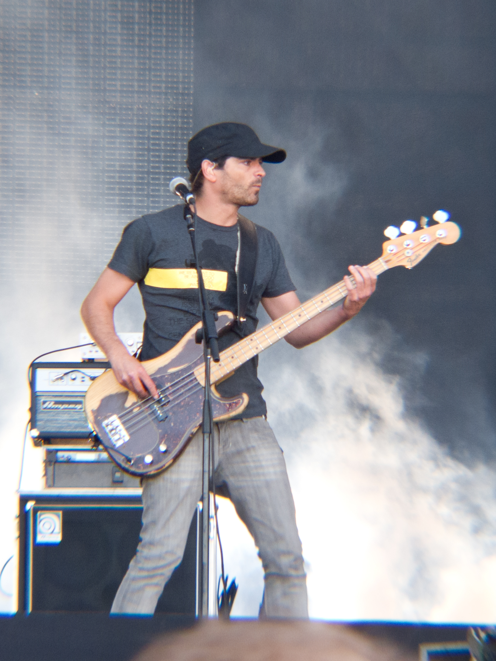 La oreja de Van Gogh in Rock in Rio Madrid 2012.